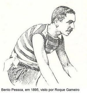 José Bento Pessoa seen by Alfredo Roque Gameiro (1895)